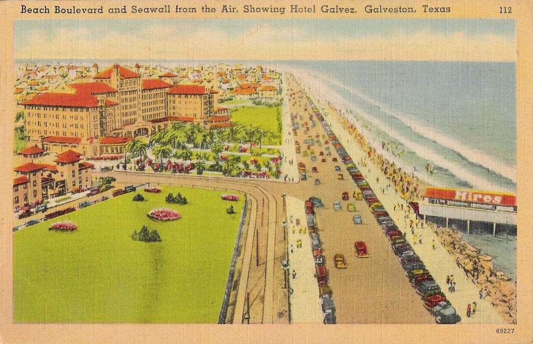 Galveston, Texas. Postcard view of Beach Boulevard and the Seawall from the air, showing Hotel Galvez.